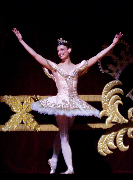 Zenaida Yanowsky as Sylvia in a Royal Ballet production of Sylvia, 07 March 2008.